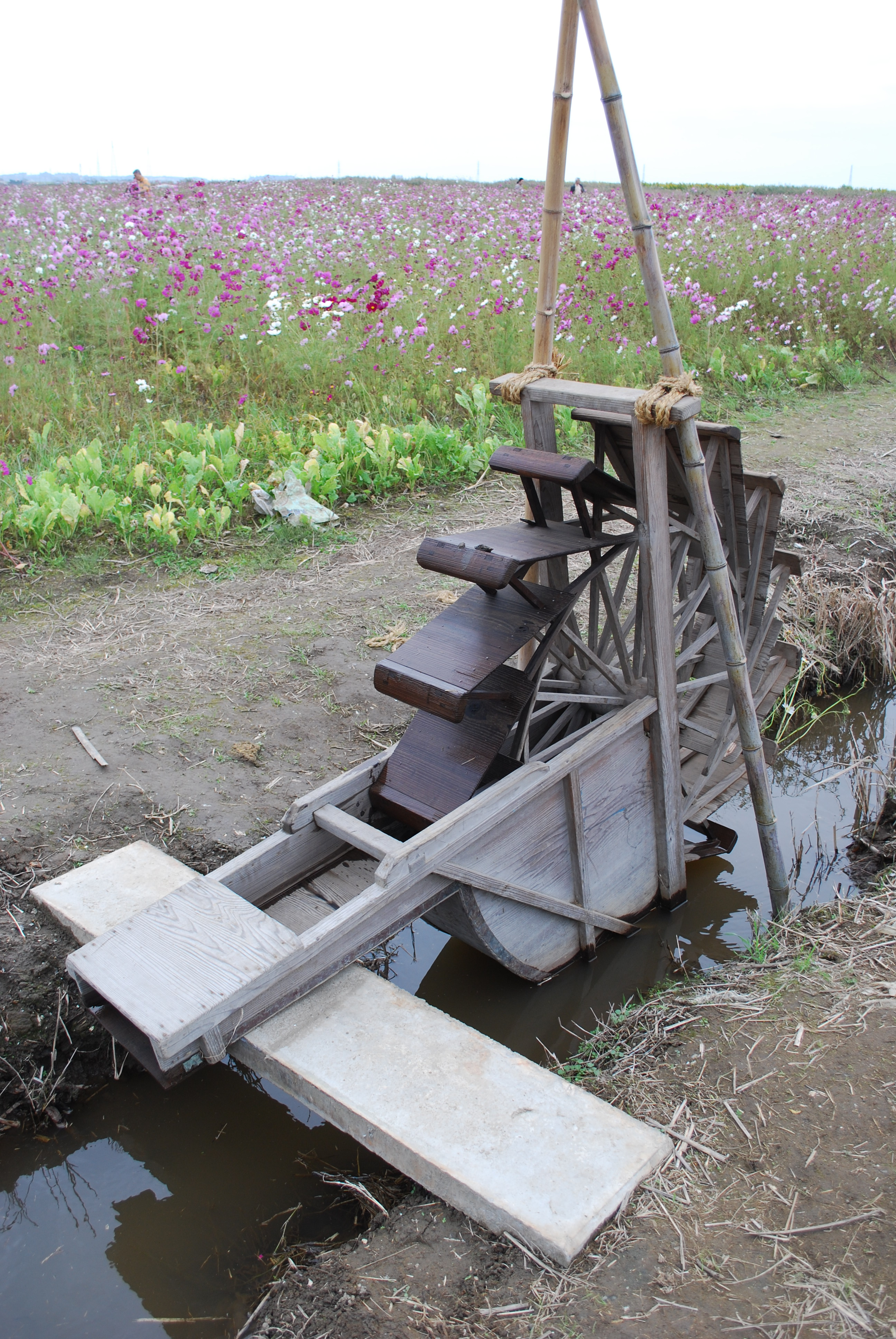 mizuguruma,human power waterwheel,katori-city,japan